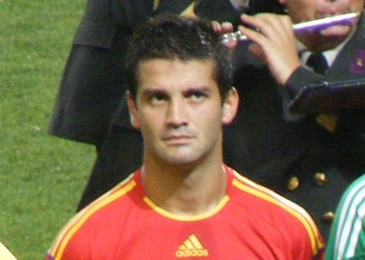 Chivu at match vs Turkey in 11st Aug 2010, Wednesday at Fenerbahce Stadium, Istanbul